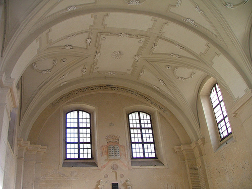 Isaac Synagogue in Kraków (stucco decorations by Jan Chrzciciel Falconi).